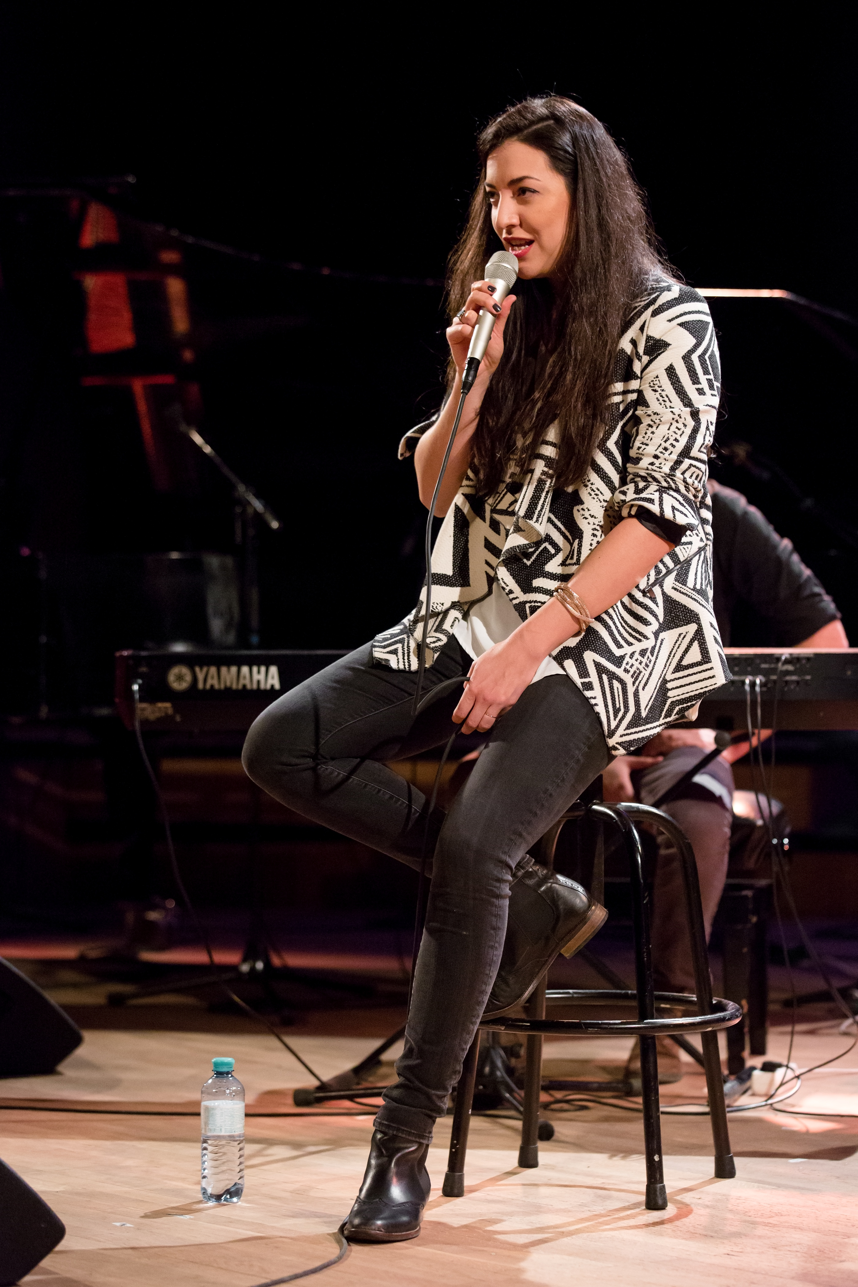 Clara Blume, concert at the charity event An Evening for Licht ins Dunkel 2015 at Radiokulturhaus/Funkhaus Wien in Vienna, Austria.